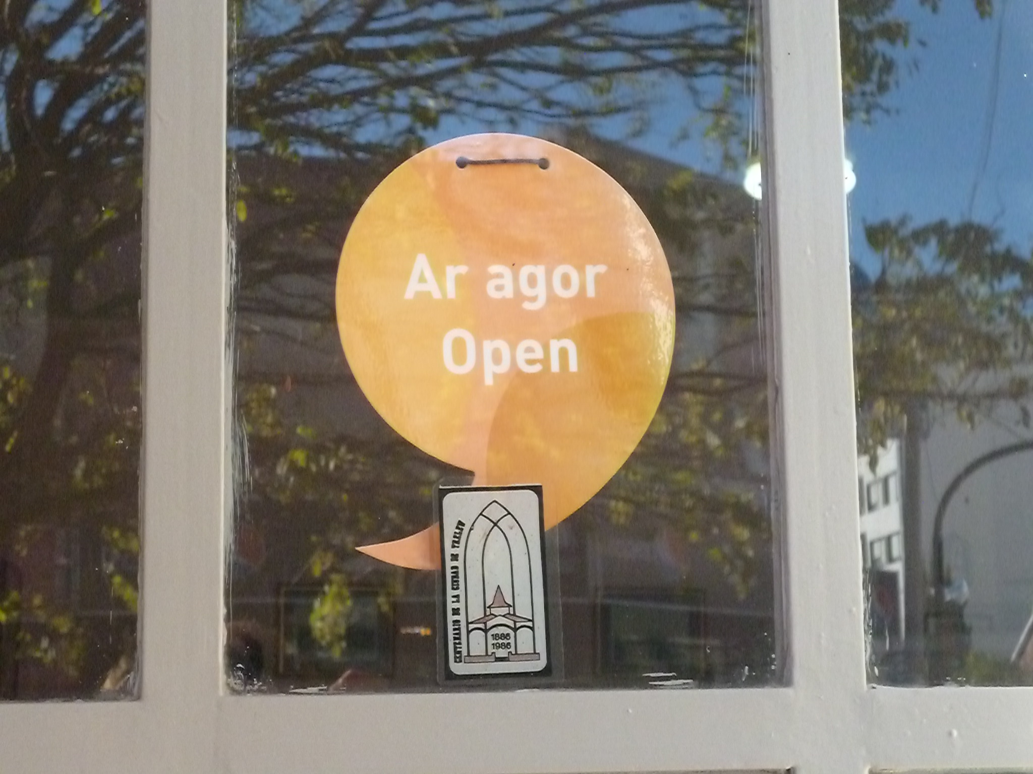 "Abierto" sign in English and Welsh, Y Wladfa